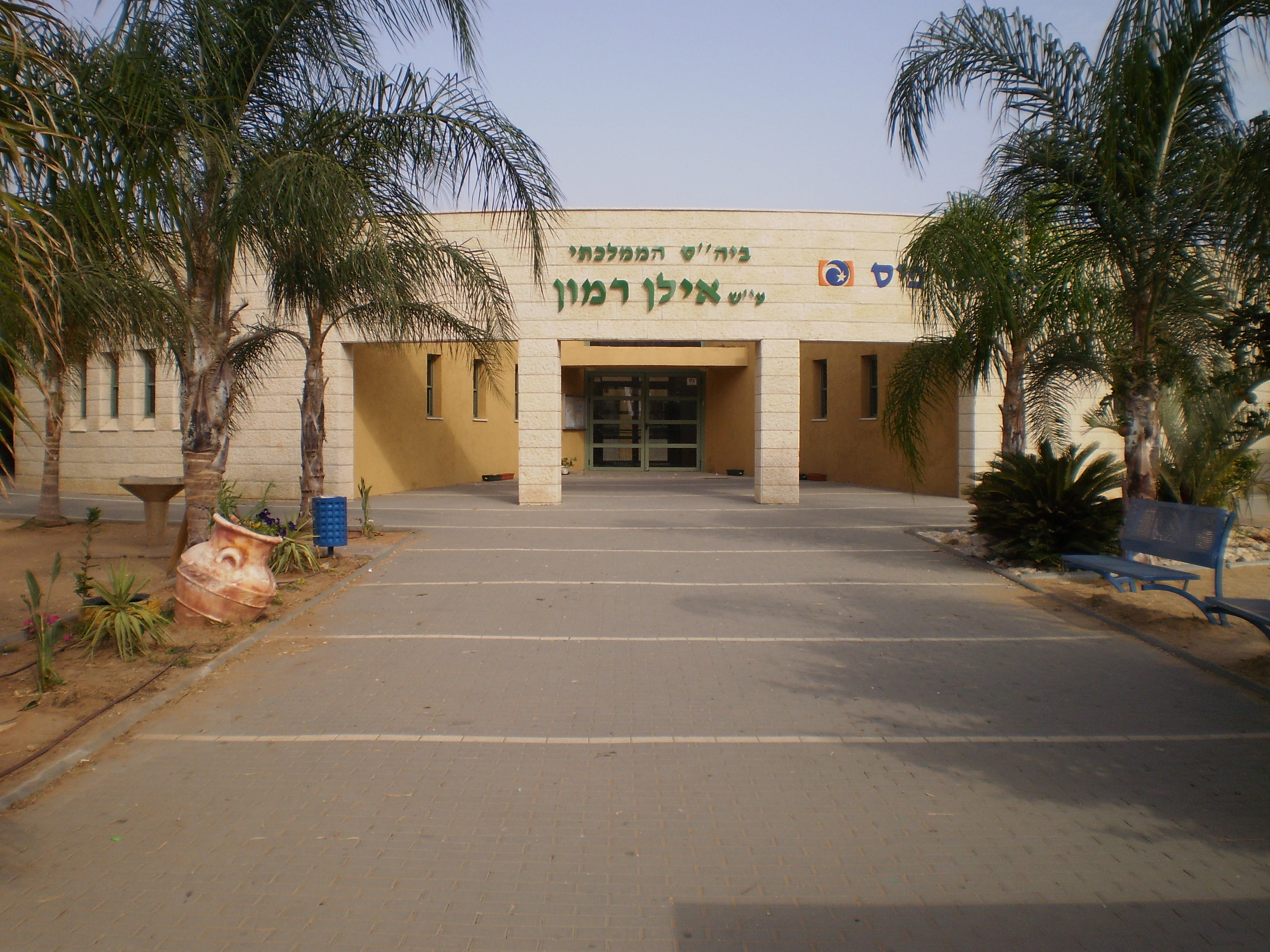 Gan Yavne - Ilan Ramon's primary school